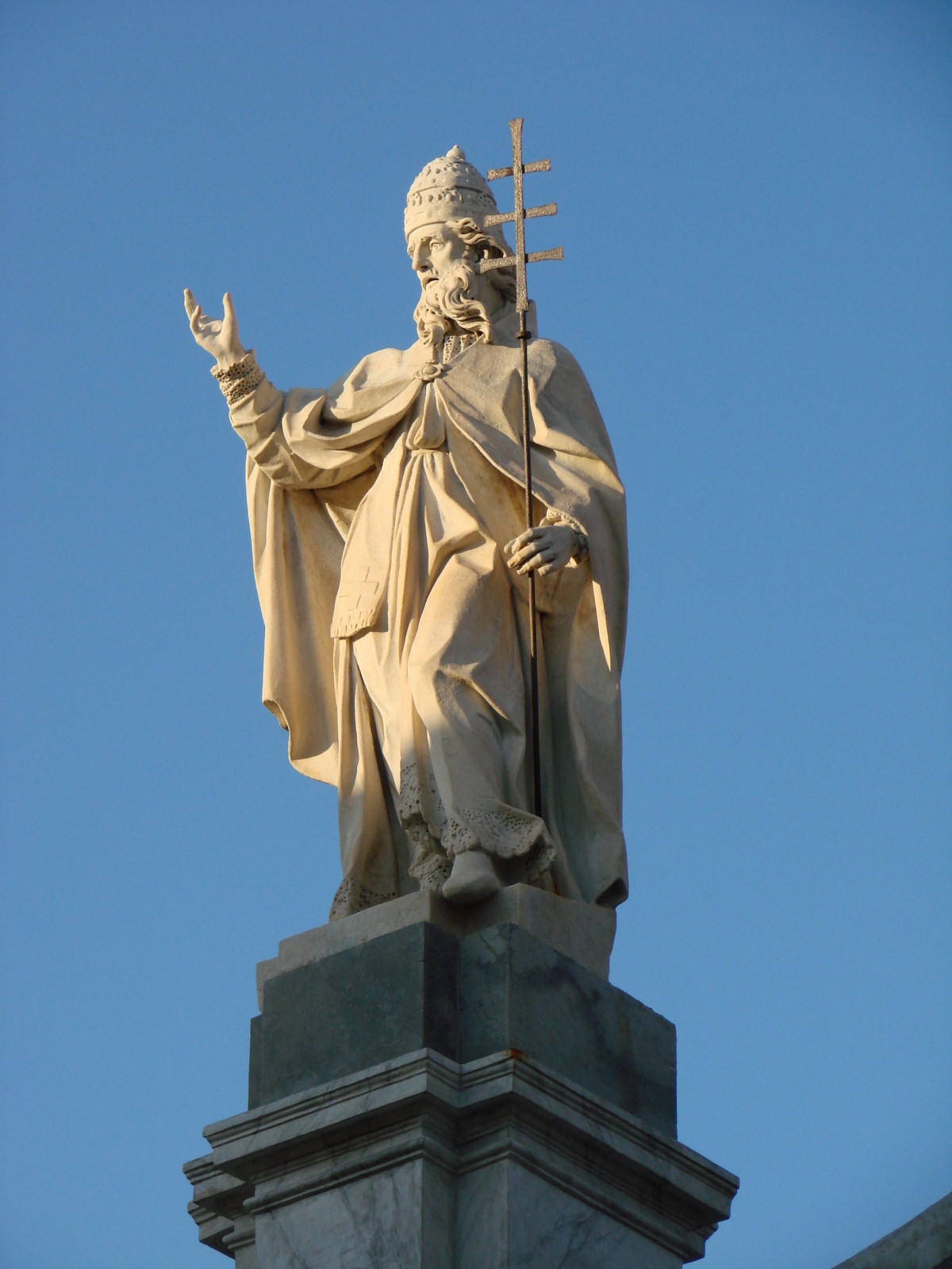 San Silvestro (pope Sylvester I) statue, over the Church of San Silvestro, Pisa